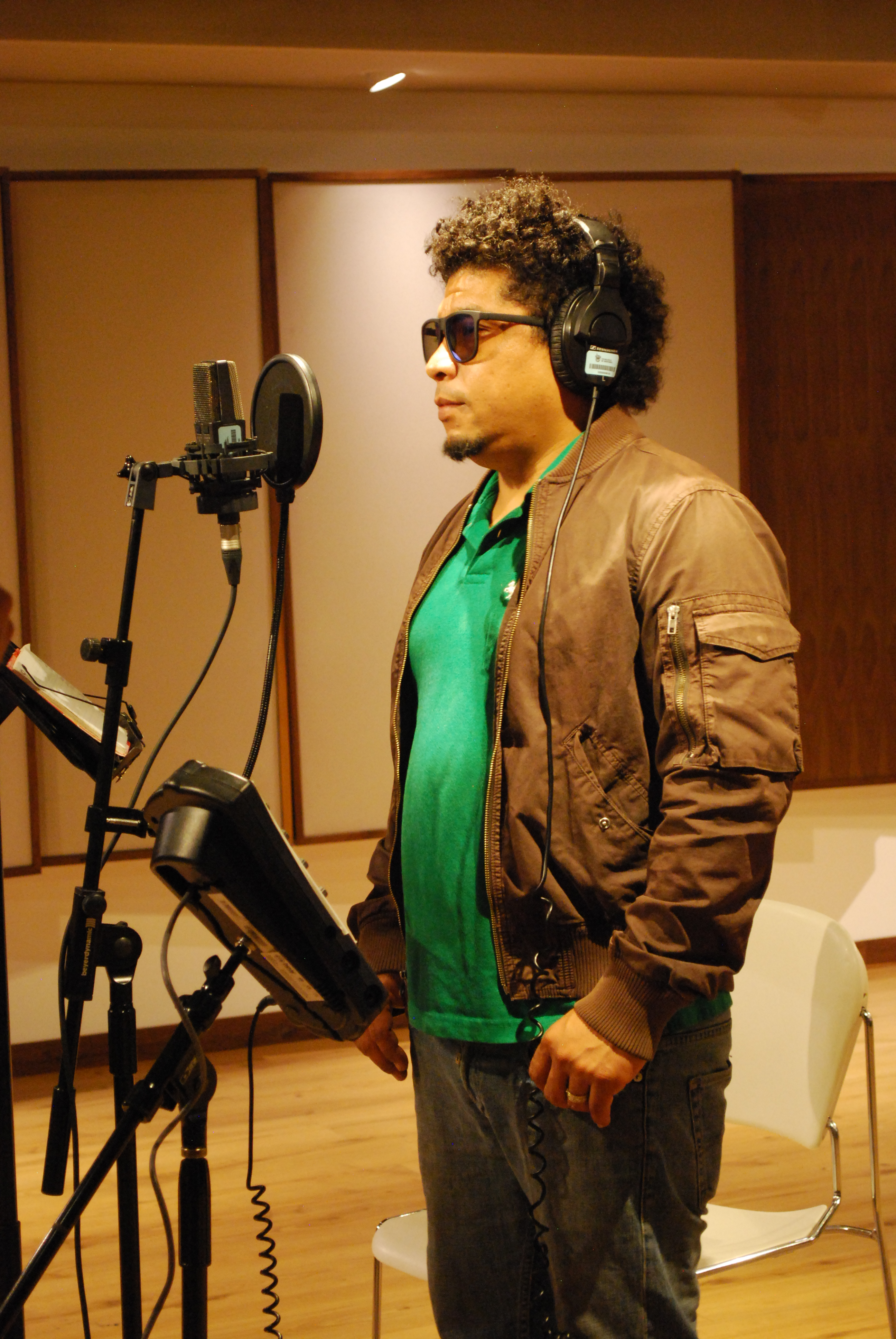 Visiting musican from Veracruz at the studios at Tec de Monterrey, Campus Ciudad de Mexico, here to record son jarocho for the Fall 2015 Wiki grabacion project